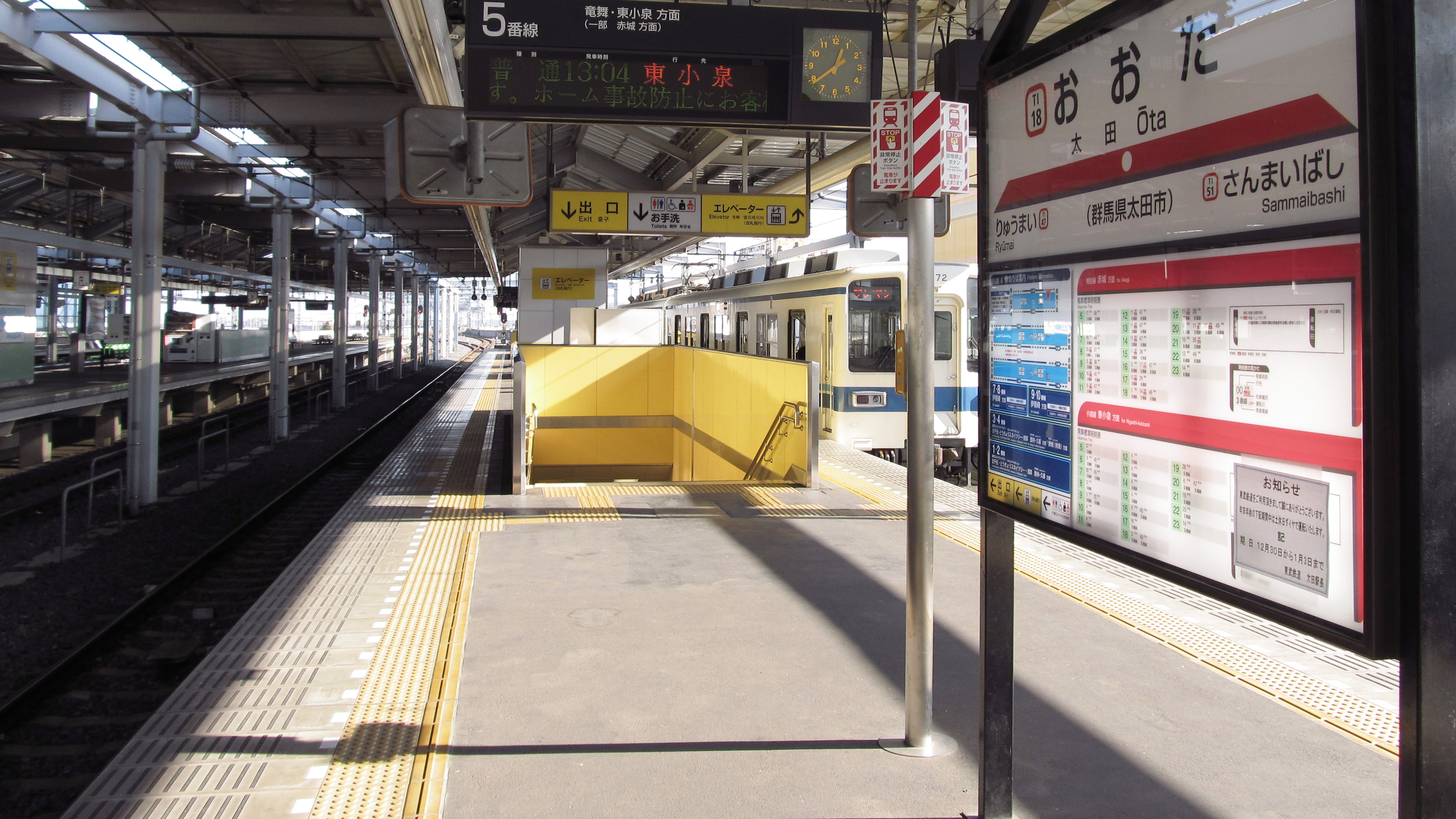 The no.5 platform at Ōta Station on the Tobu Railway Koizumi Line in Ōta city, Gumma prefecture, Japan